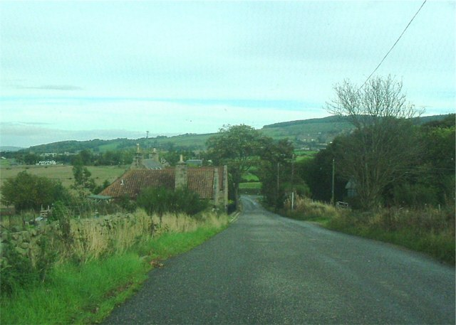 Tyrebagger road, near Little Mill of Clinterty Tyrebagger at right rear.